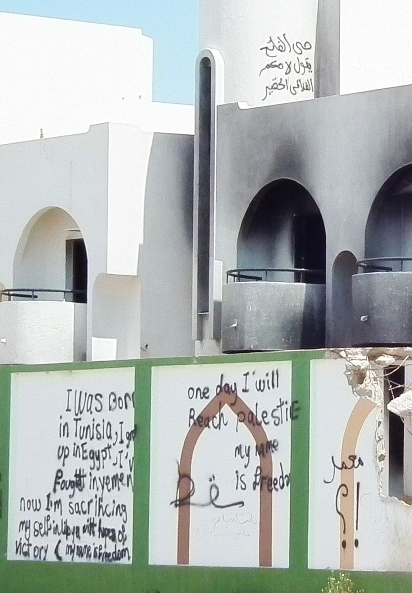 Graffiti on a wall near the former Gaddafi security compound, Bengasi, Libya. "I was born in Tunisia, I grew up in Egypt, I'v fought in Yemen now I'm sacrificing myself in Libya in hopes of victory ... one day I will Reach palestine my name is freedom"